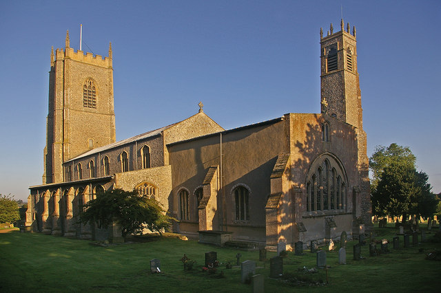 Church of St Nicholas, Blakeney Early morning view of this Grade I listed church from the south east. The unusual 7 light east window can be seen on the right, at the end of the chancel.